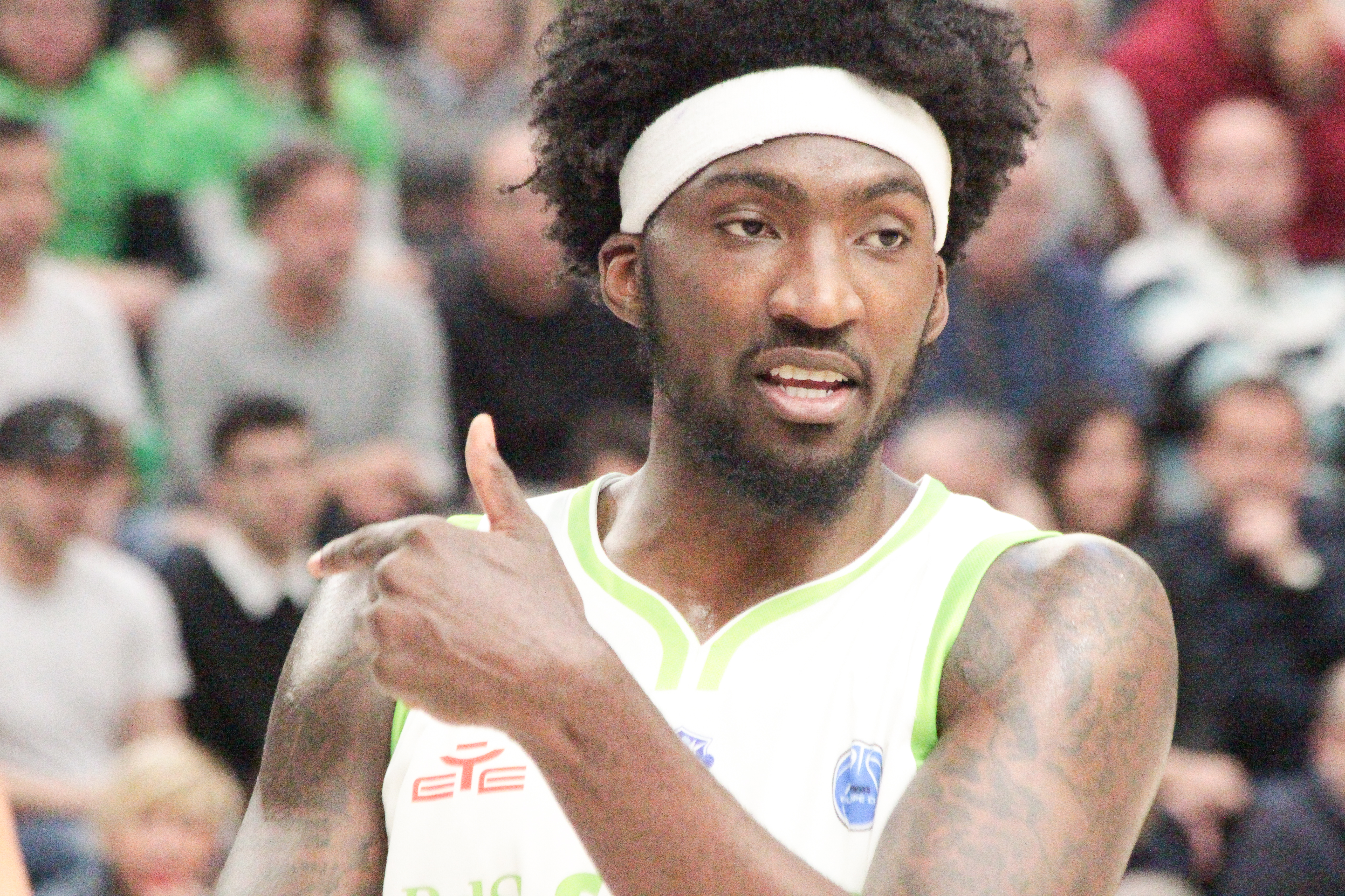 The basketball player Rashawn Thomas with Dinamo Sassari uniform